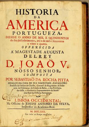 História da America Portugueza foi publicada em Lisboa pela Officina de Joseph Antonio da Silva, Impressor da Academia Real, no ano de 1730.